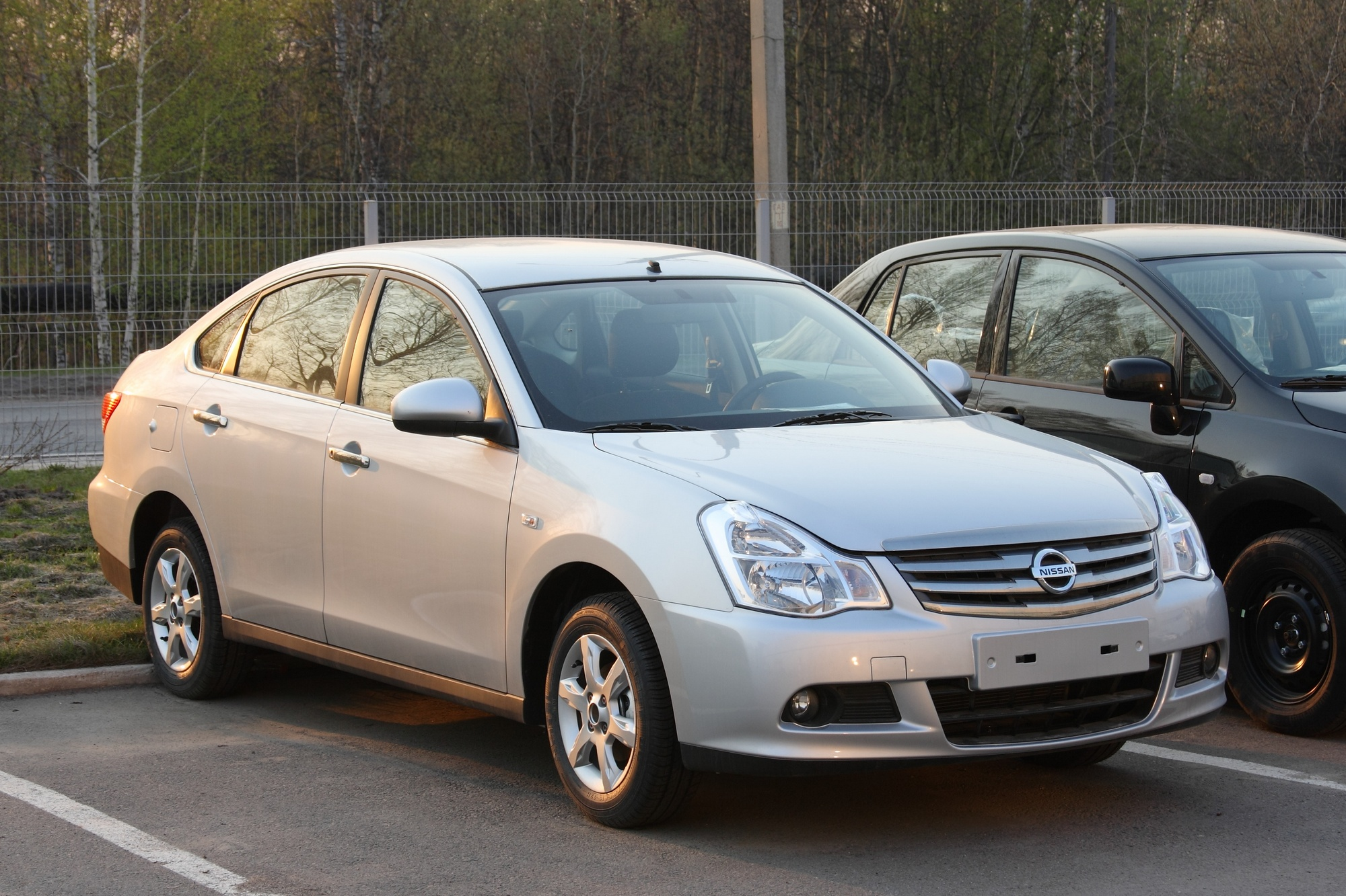 Nissan Almera built by AvtoVAZ in Togliatti, Russia. Picture taken at a dealership parking in Tomsk.